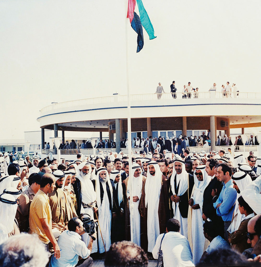 Sheikh Zayed Bin Sultan Al Nahyan and their Highnesses the Rulers of the Emirates during the flag hoisting at the Union Declaration - Dubai 2/12/1971